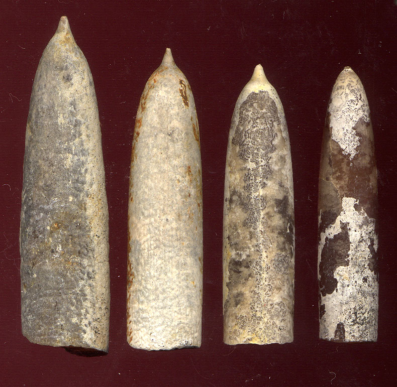 Belemnit sceletons, found in village Dovhe, Zakarpatska Obl. Ukraine